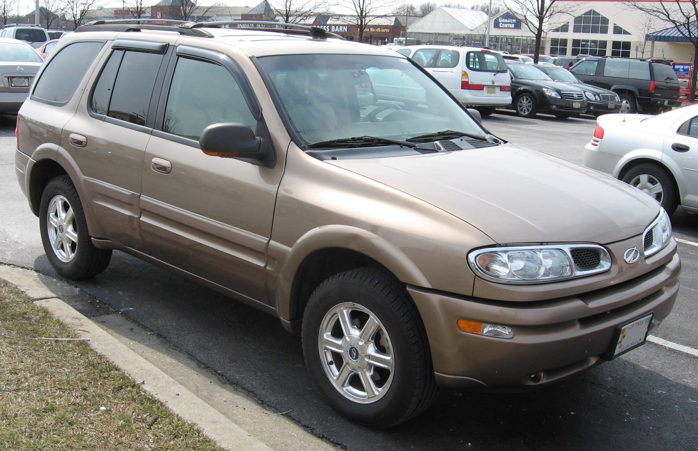 2002-2004 Oldsmobile Bravada photographed in the U.S.